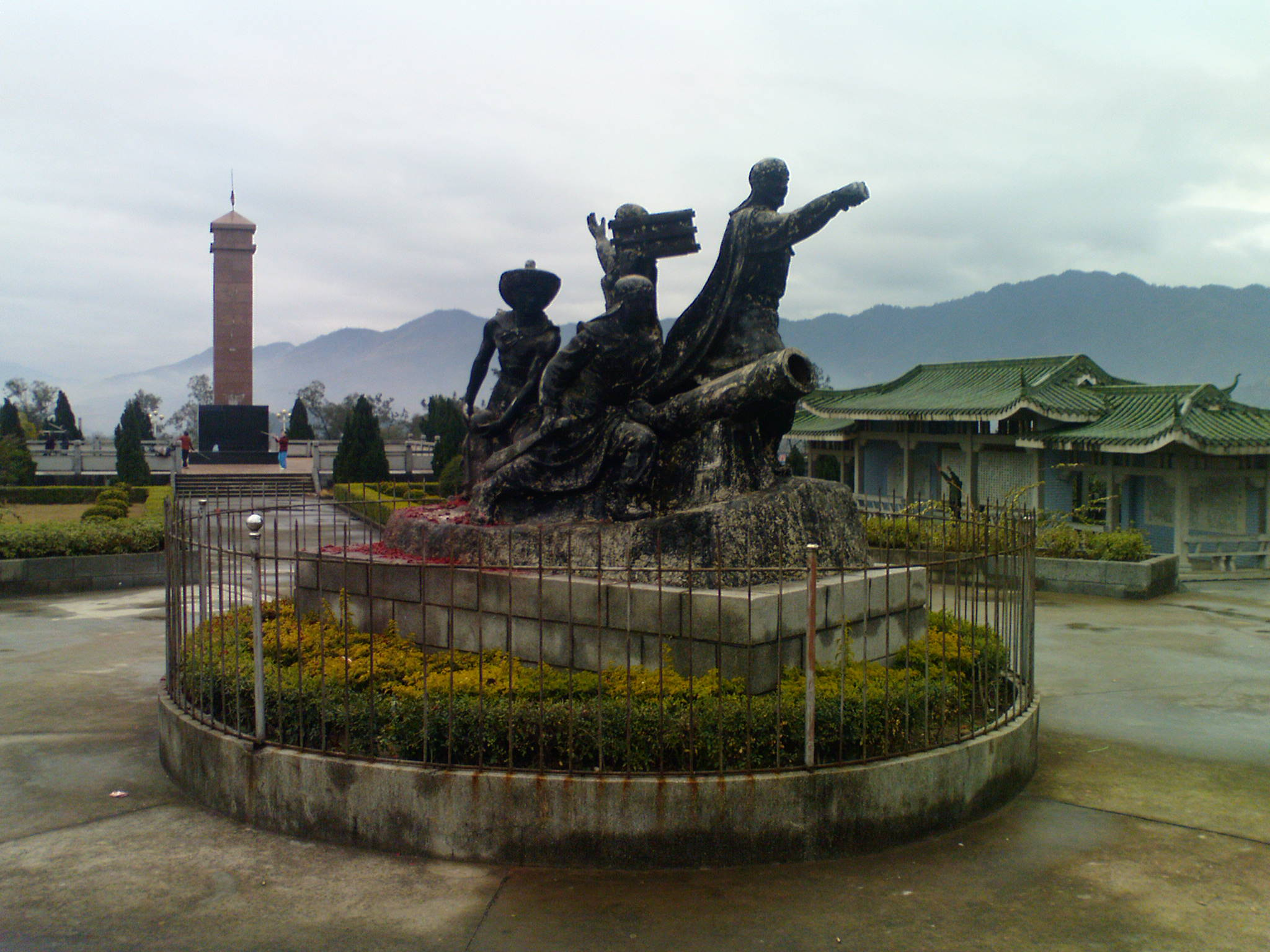 A historic monument to the Tai Ping Heavenly Kingdom, which was an early seat of Government of the Taiping Rebellion, located in Mengshan town, in Wuzhou Prefecture, Guangxi, China. The monument is located on a remaining section of the original city wall of the walled city of Yongan, now called Mengshan town.